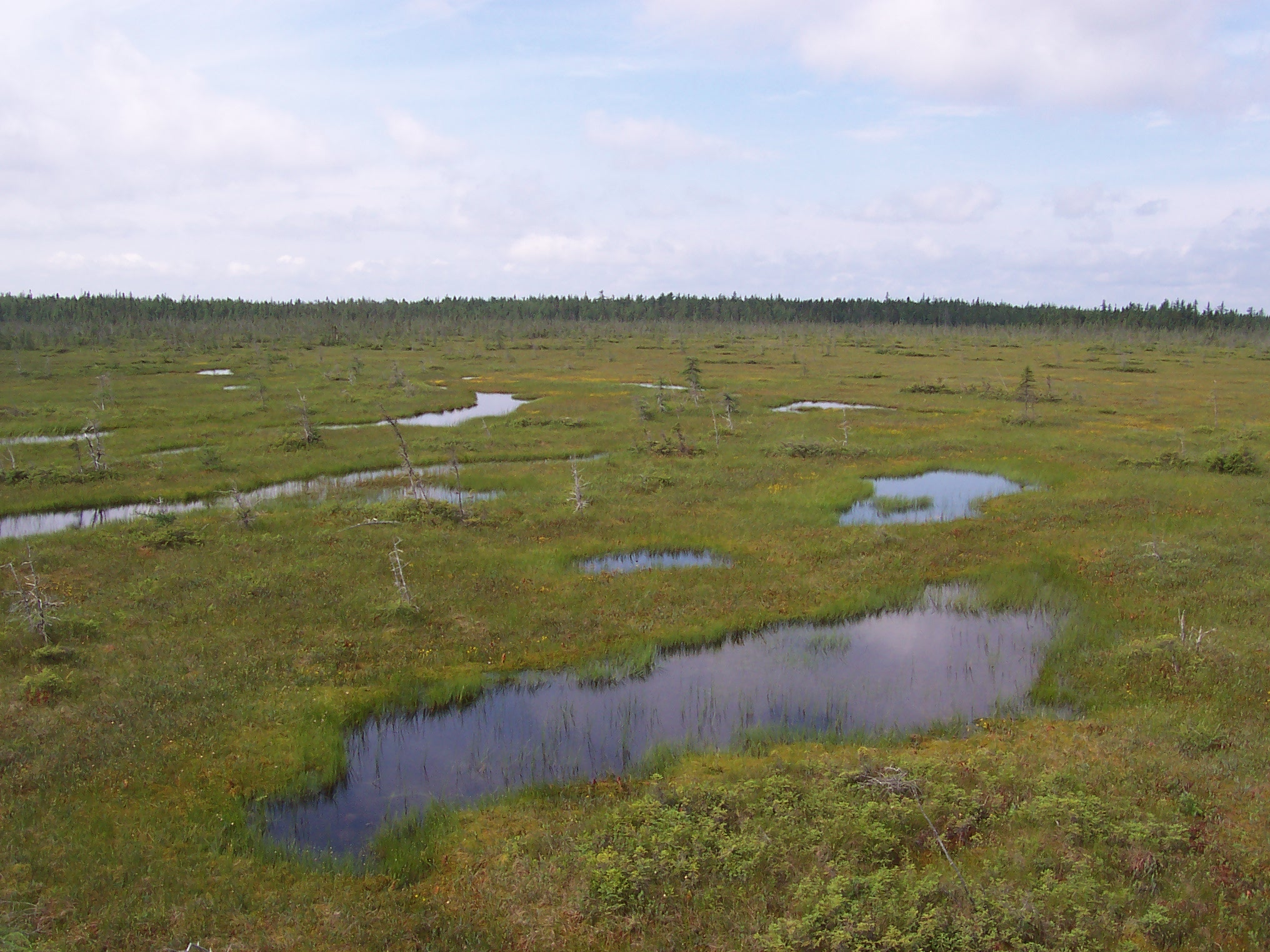 Bog - St-Daniel sector - Frontenac National Park (Québec, Canada) - July 2008